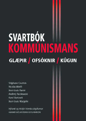 Photograph of book cover